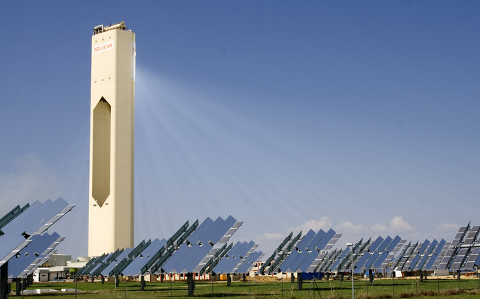 Solucar PS10 is the first tower based solar thermal power plant in the world that generates electricity commercially.